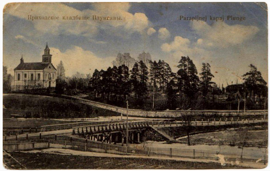 Old cemetery chapel in Plungė, Lithuania